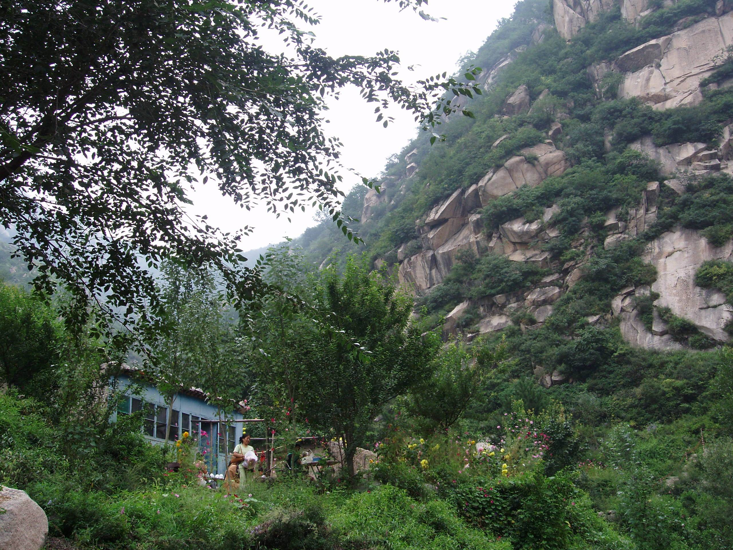 Taihang Shan Mountains in North China